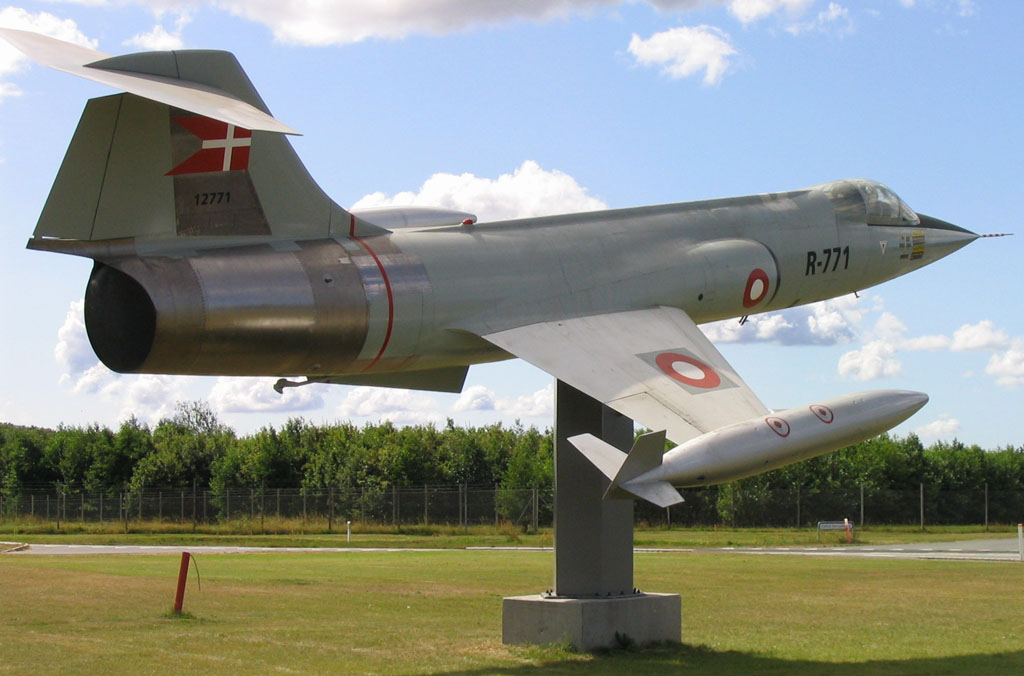 Danish air force F-104 Starfighter outside Aalborg airbaseDansk: Dansk F-104 Starfighter placeret udenfor Flyvestation Aalborg